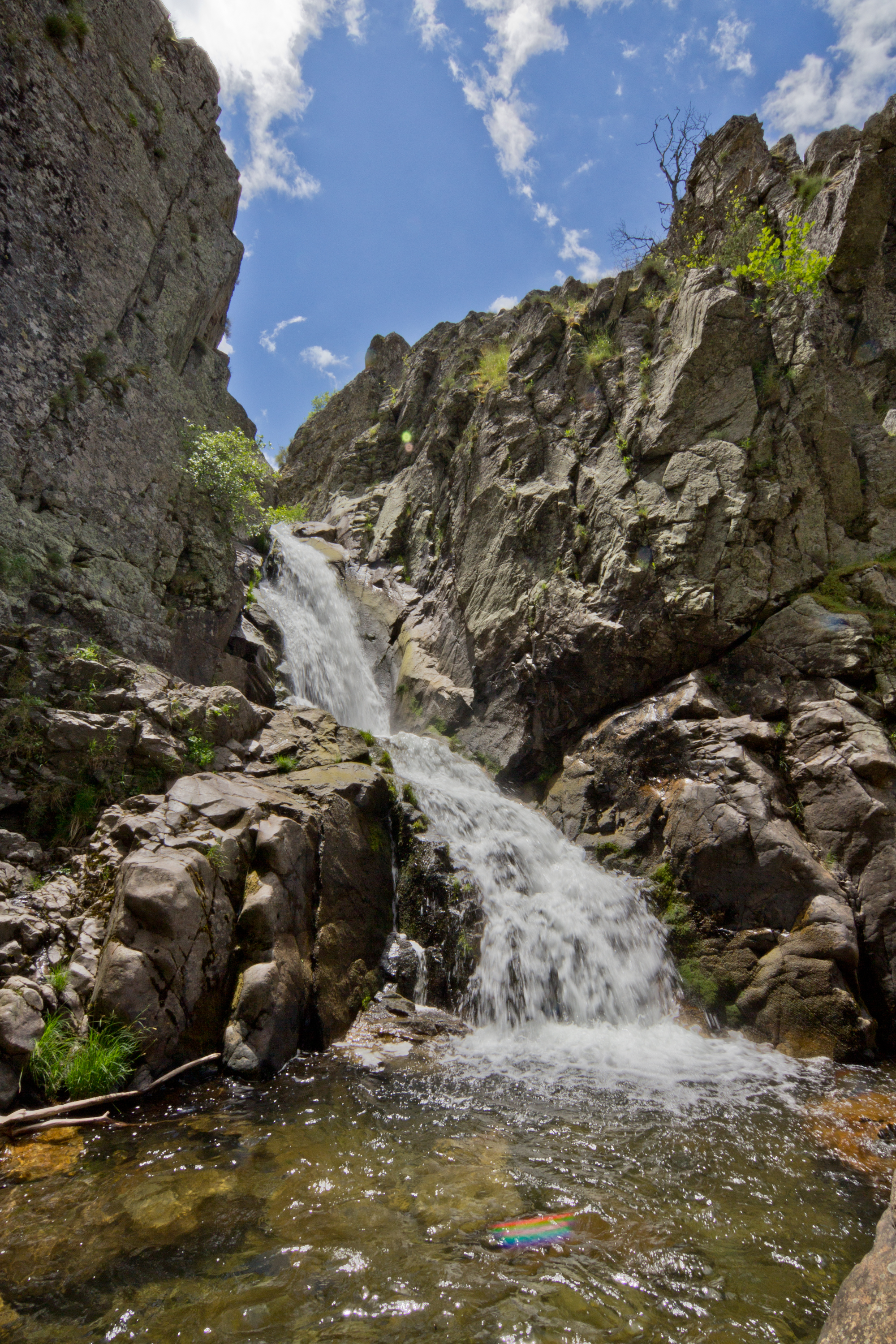 Upper Purgatory Falls, Community of Madrid, Spain. This is a photography of a Special Area of Conservation in Spain with the ID: ES3110002. Natura2000 entry, EEA entry